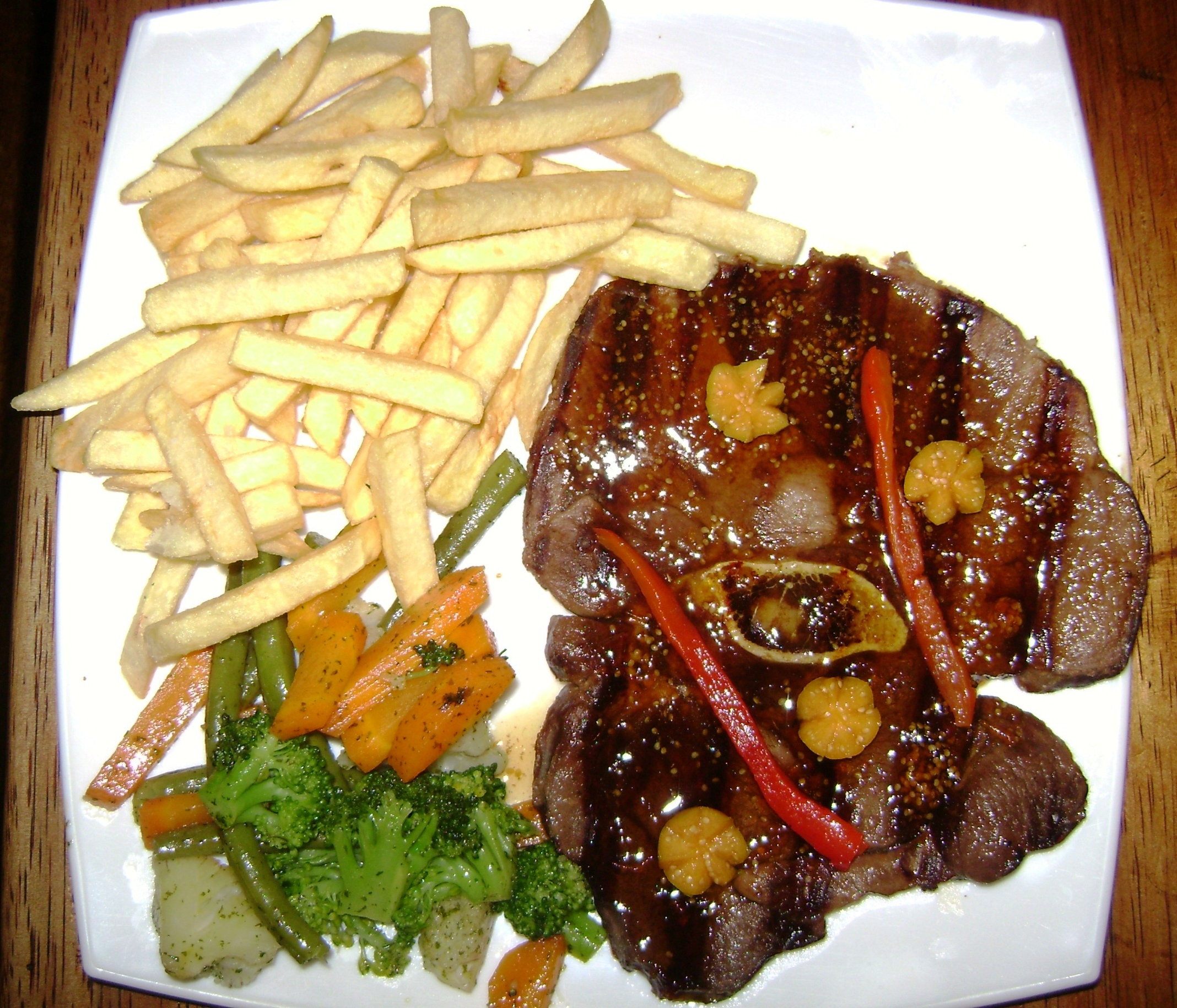 Alpaca in aguaymanto sauce, with chips and vegetable salad. Huaraz, Peru.